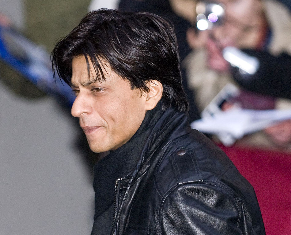 Indian actor Shah Rukh Khan, arrival for press conference of "Om Shanti Om" at the Hyatt Hotel, Potsdamer Platz, Berlin